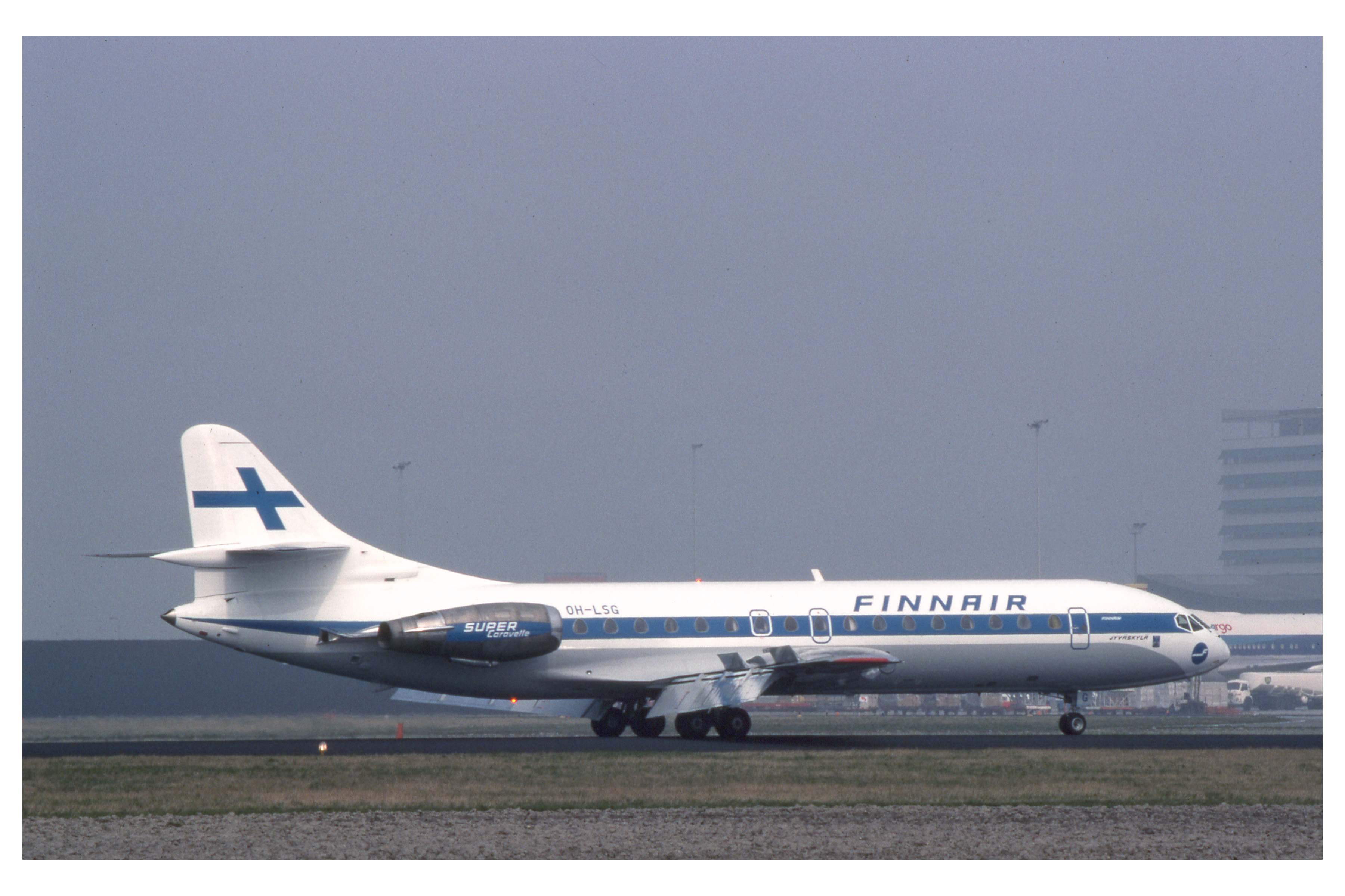 A Sud Aviation SE-210 Caravelle 10B3 Super B aircraft (OH-LSG; Jyväskylä) of Finnair at Amsterdam Airport Schiphol in April 1979.